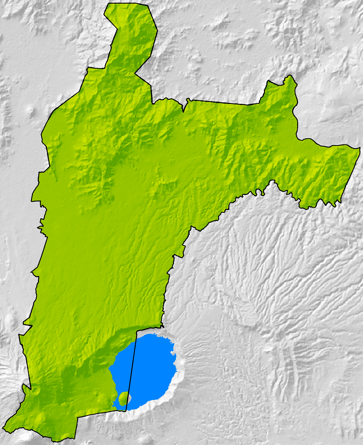 Relief map of the municipality of Santa Ana, Santa Ana, El Salvador